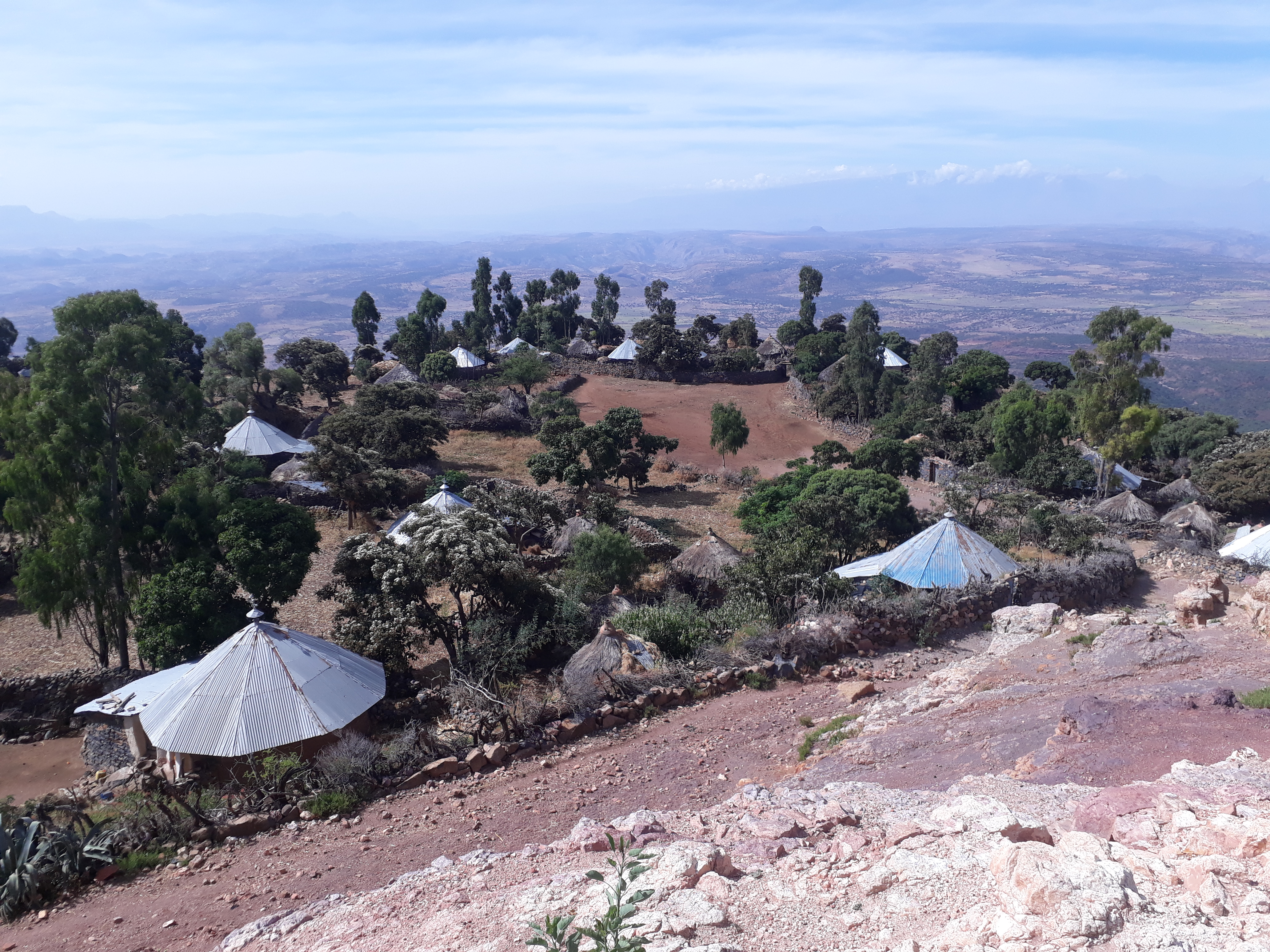 Santarfa